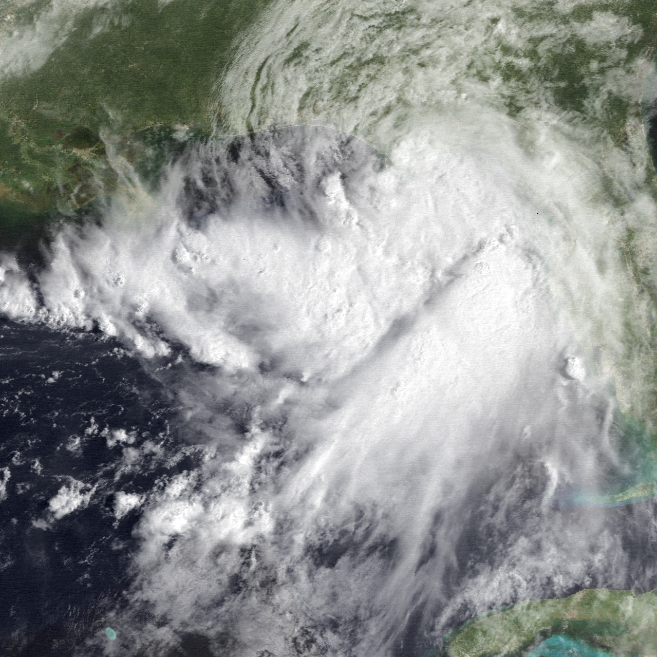 Tropical Storm Beryl shortly after classification as a tropical storm on August 15, 1994